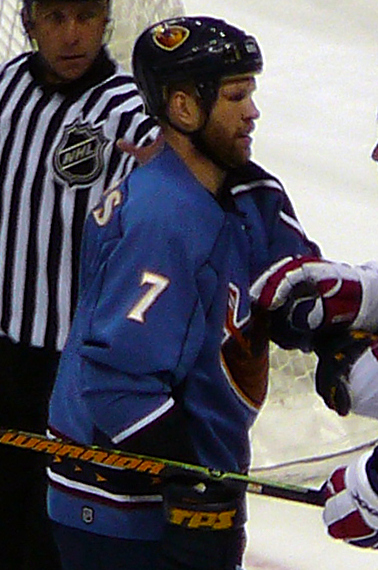 Greg de Vries during an NHL Playoffs 2007, Round 1, Atlanta Thrashers vs. New York Rangers at Philips Arena